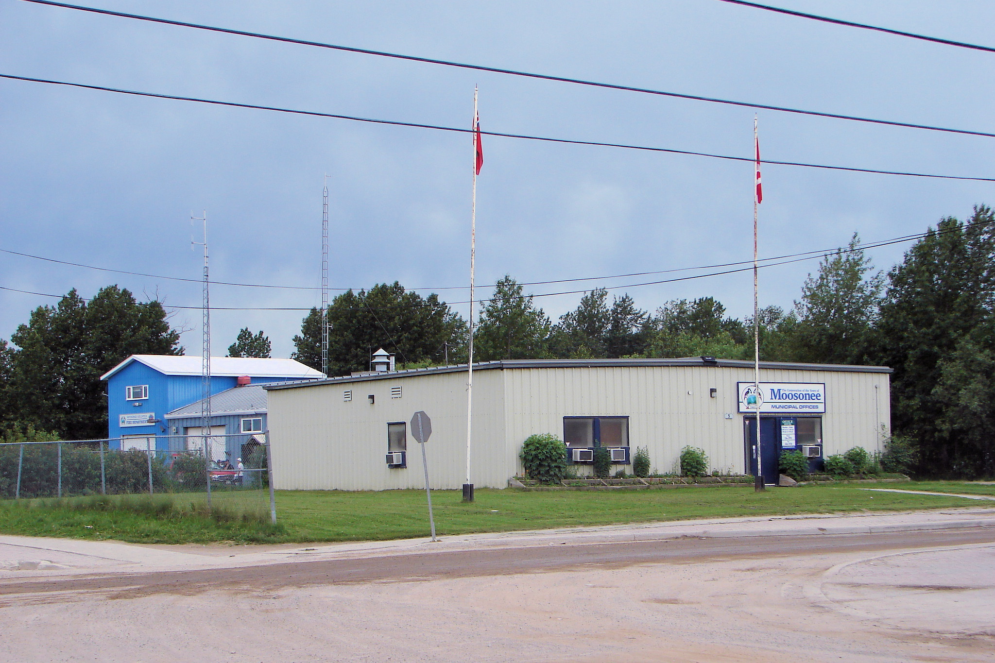 Municipal office of Moosonee, Ontario, Canada